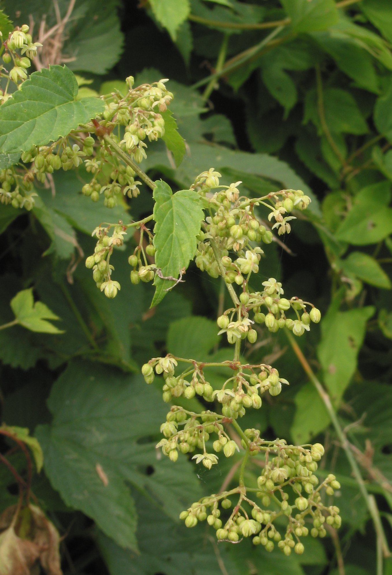 Humulus lupulus male plant Walon: houbion, flormints måyes